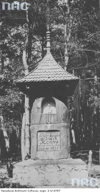 Monument in Jednaczewo. Photo by Narodowe Archiwum Cyfrowe. Signature: 1-U-3797